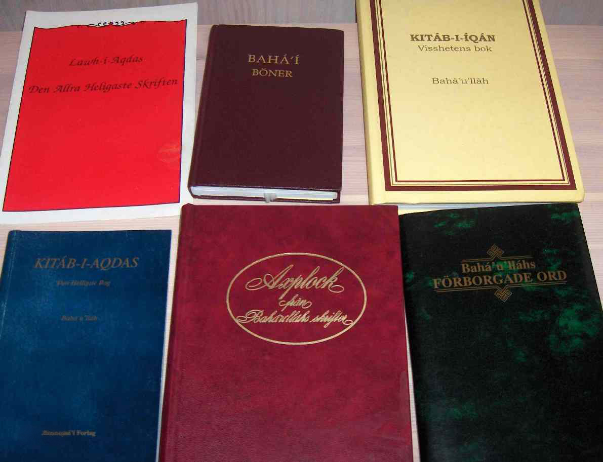 Covers the Aqdas, the Iqan and other holy books of the Bahá'í Faith.